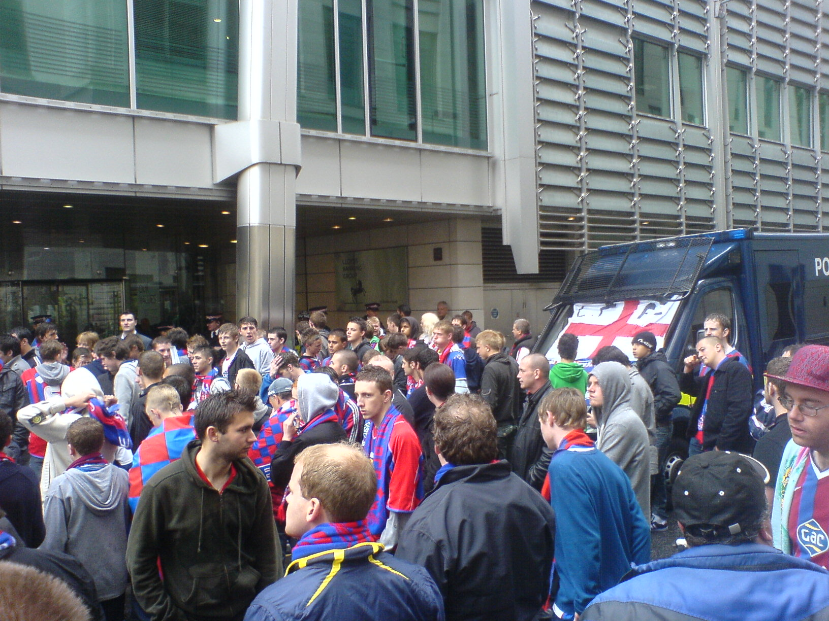 Crystal Palace fans protest - and wait anxiously - outside the London HQ of Lloyds